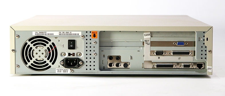 Sun Ultra 5 Workstation. Back view